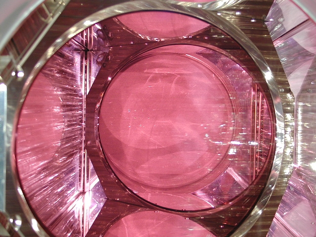 view into the A315 amplifier with two Nova laserdisks (from the LLNL, now used at the German PHELIX Laser system) allowing a maximum beam aperture of 315 mm